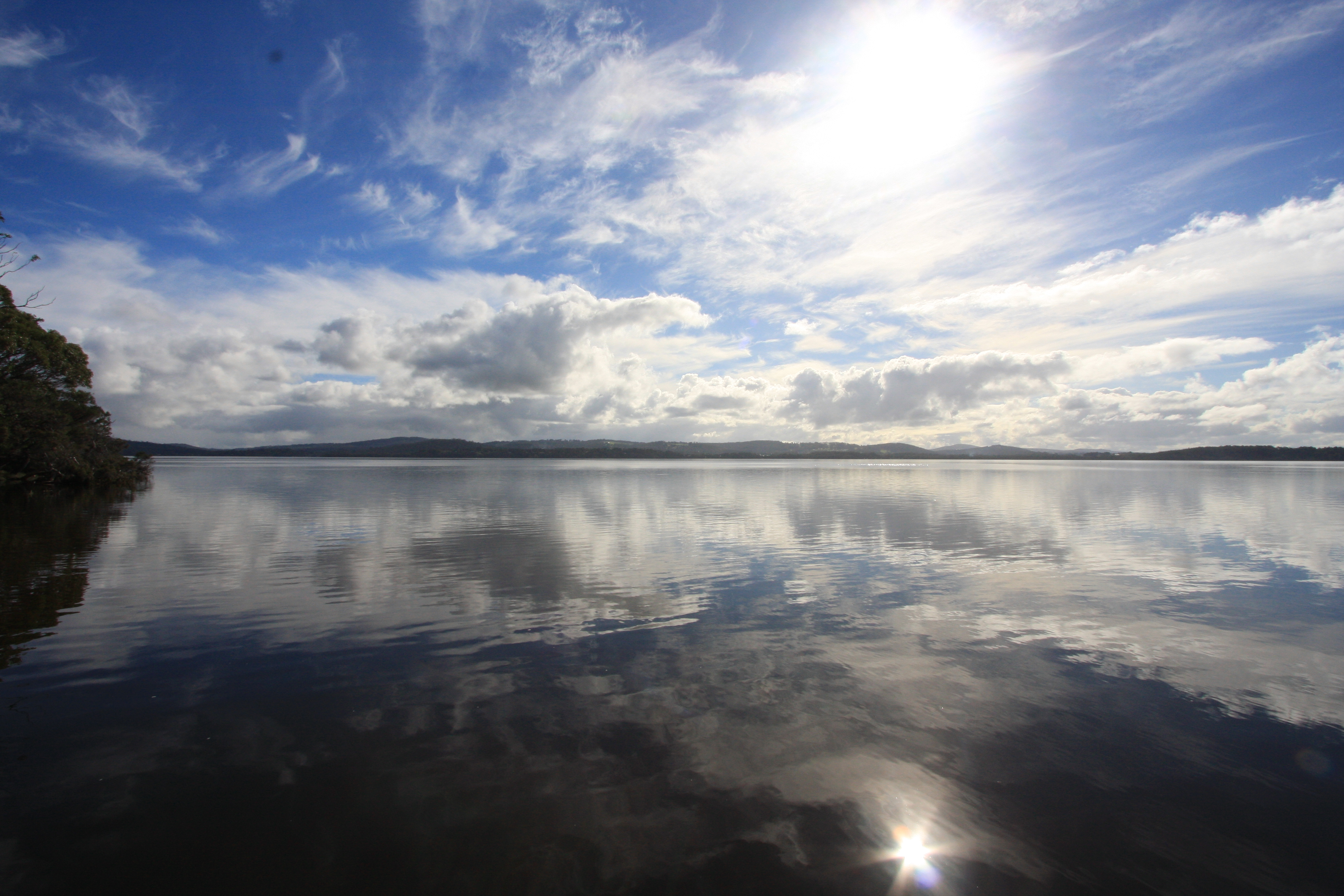 The Wilson Inlet. Photo taken on the southern side of the Inlet (from Nullaki Peninsula), facing North towards the town of Denmark.